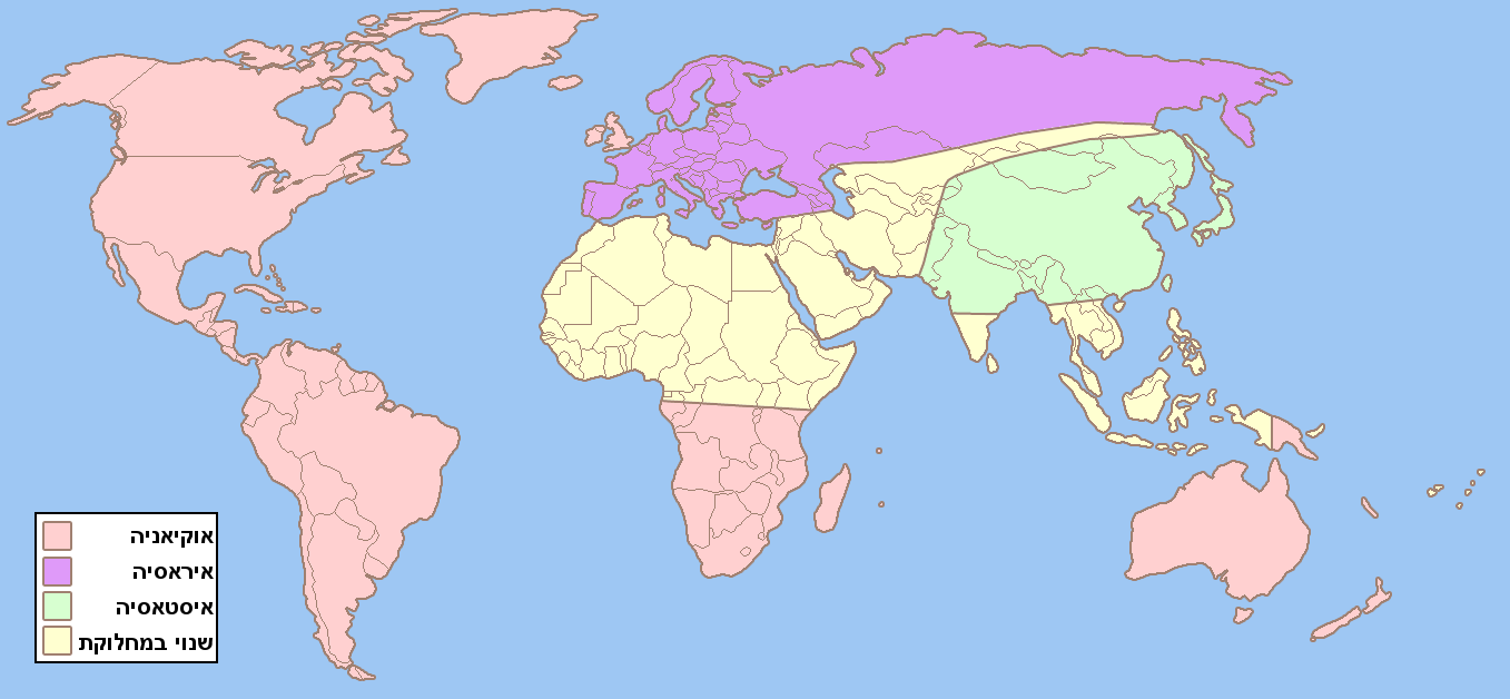 Hebrew translation of the English map of 1984's fictious world